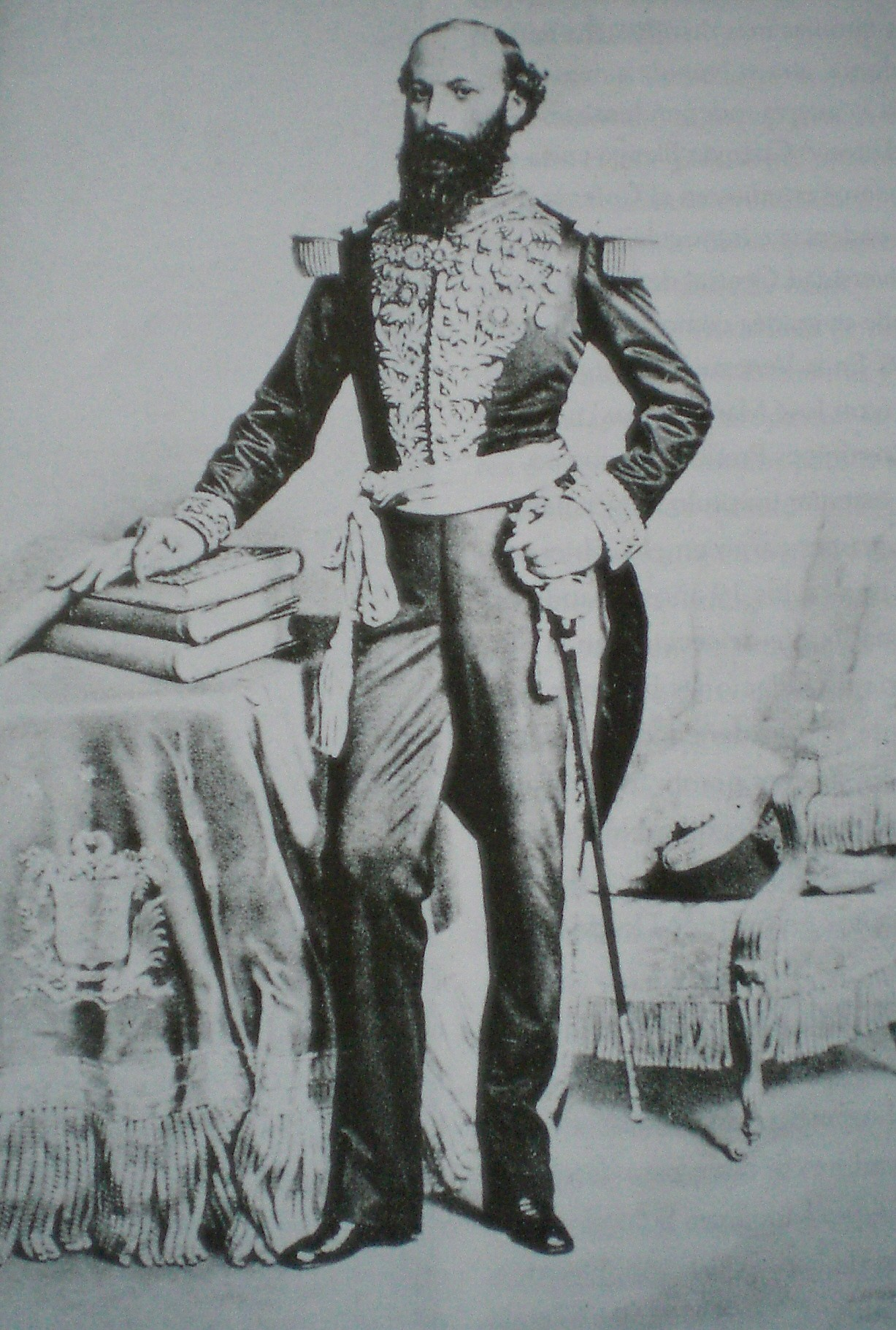 Antonio Guzmán Blanco in 1875.